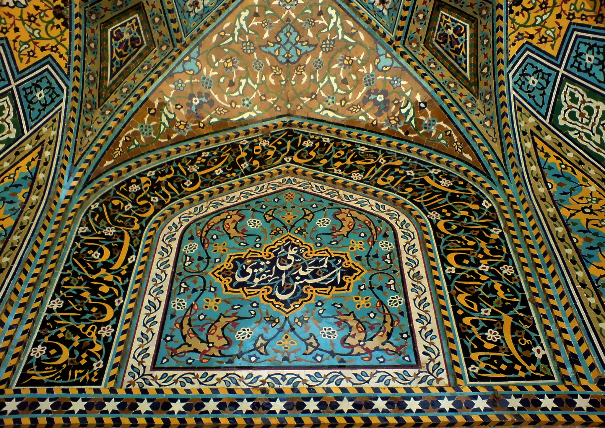 Portal of Muhammad Al-Mahruq Mosque